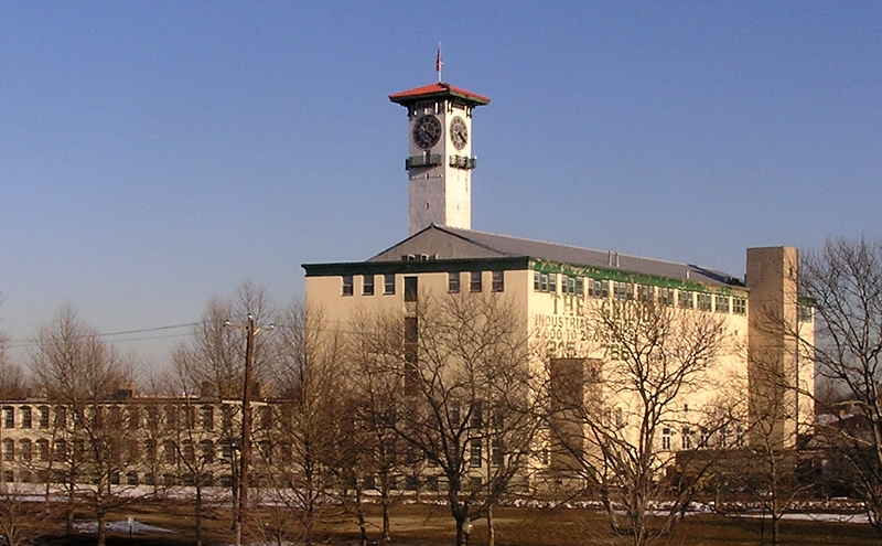 Gundy Mills Complex in Bristol, Pennsylvania.